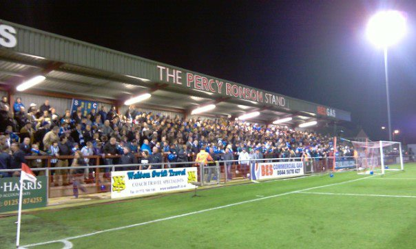 Stockport County fans away at Fleetwood Town